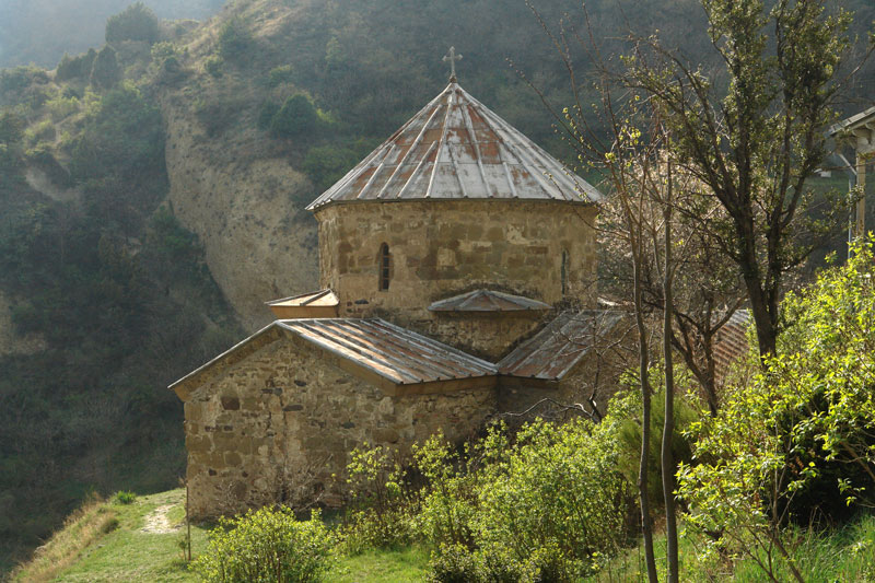 The Shio-Mgvime Monastery is a medieval monastic complex in Georgia, near the town of Mtskheta. It is located in a narrow limestone canyon on the northern bank of the river Mtkvari (Kura), some 30 km from Tbilisi, Georgia’s capital.